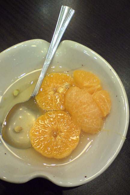 Milgam hwachae, Mandarin oranges punch in Korean cuisine